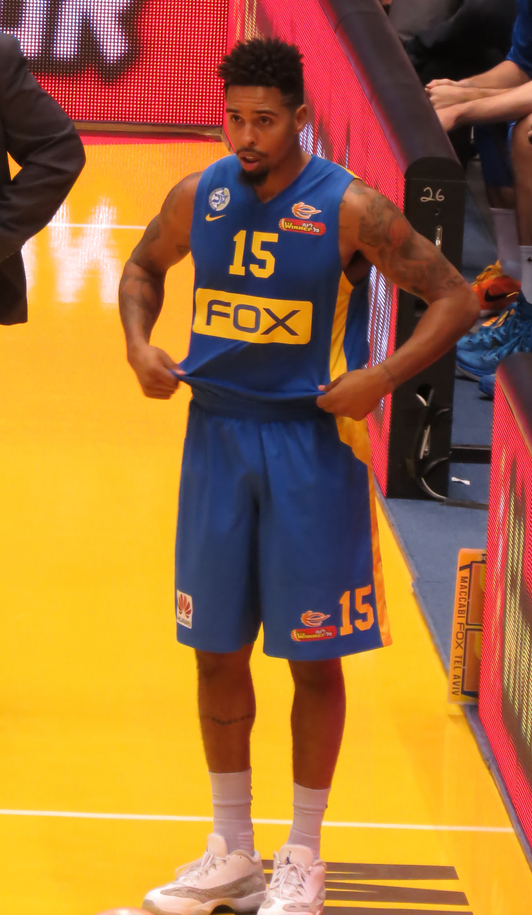 Maccabi Tel Aviv vs Hapoel Jerusalem, 25 October, 2015